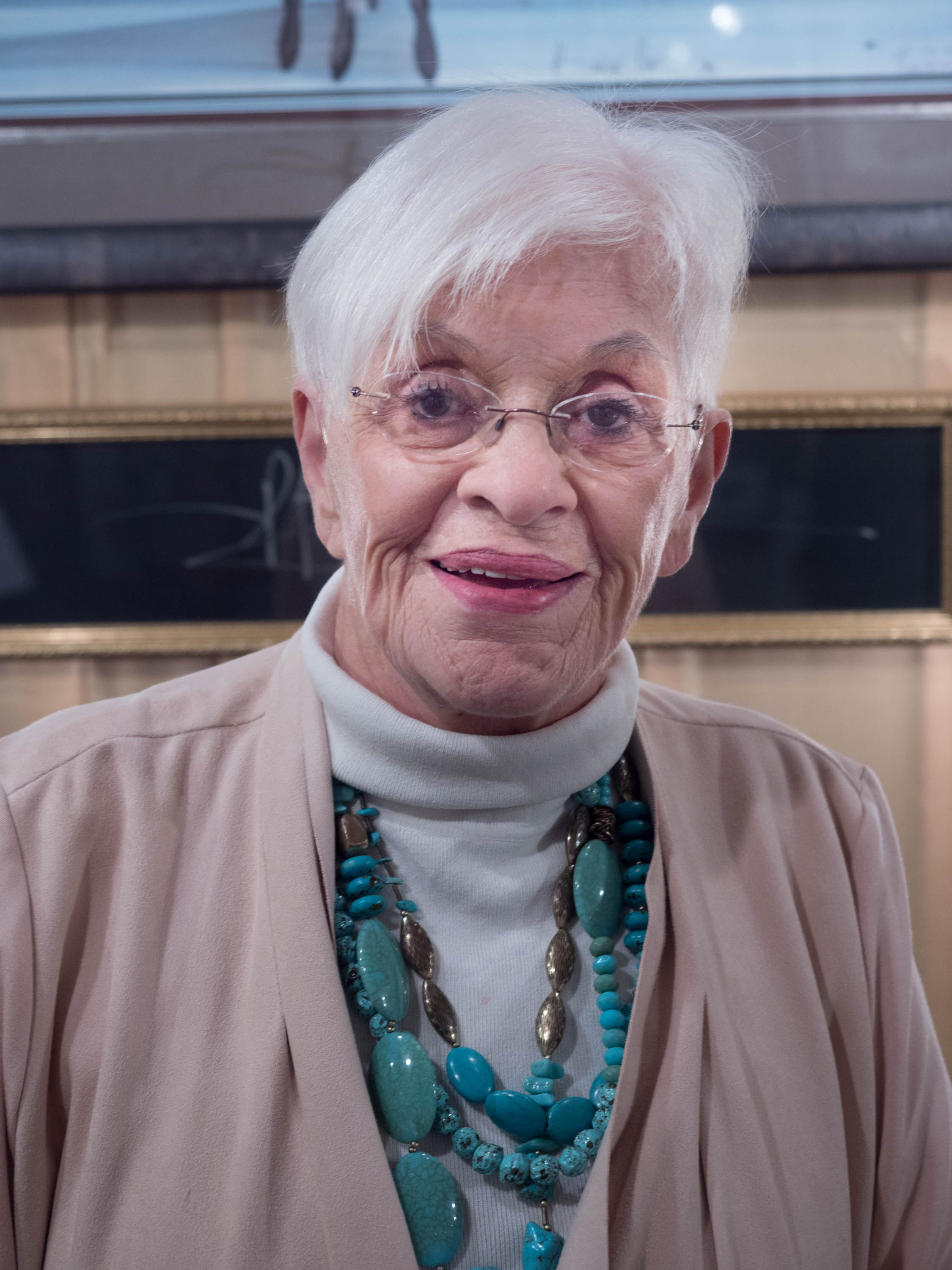 P. Buckley Moss at the Berlin Creek & Blue River Galleries in Berlin, Ohio, October 2019